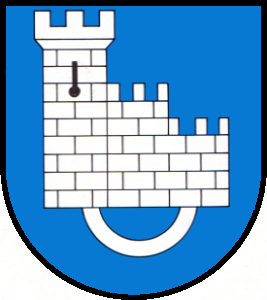 COA of distict de la Sarine/Saanebezirk in canton Fribourg and of the city of Fribourg